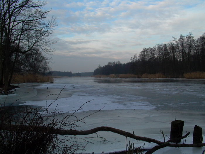 Picture taken by Daniel van der Ree, The Netherlands There is an improved version with corrected exposure. See Image:Peene bij Gutshaus Stolpe 2002 12-2.jpg!